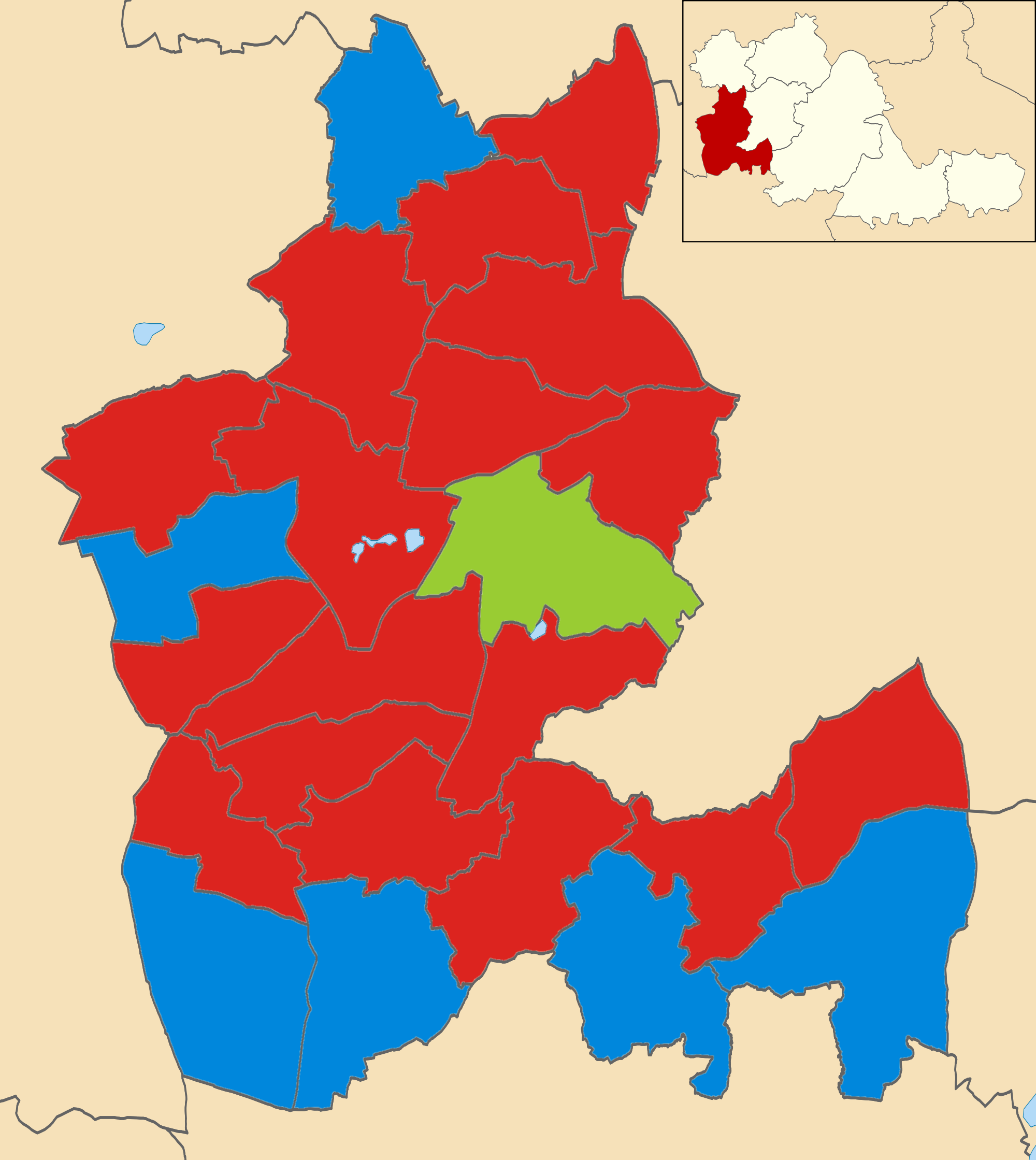 Results of the 2012 local elections in Dudley Colours: Conservative Labour Green Party